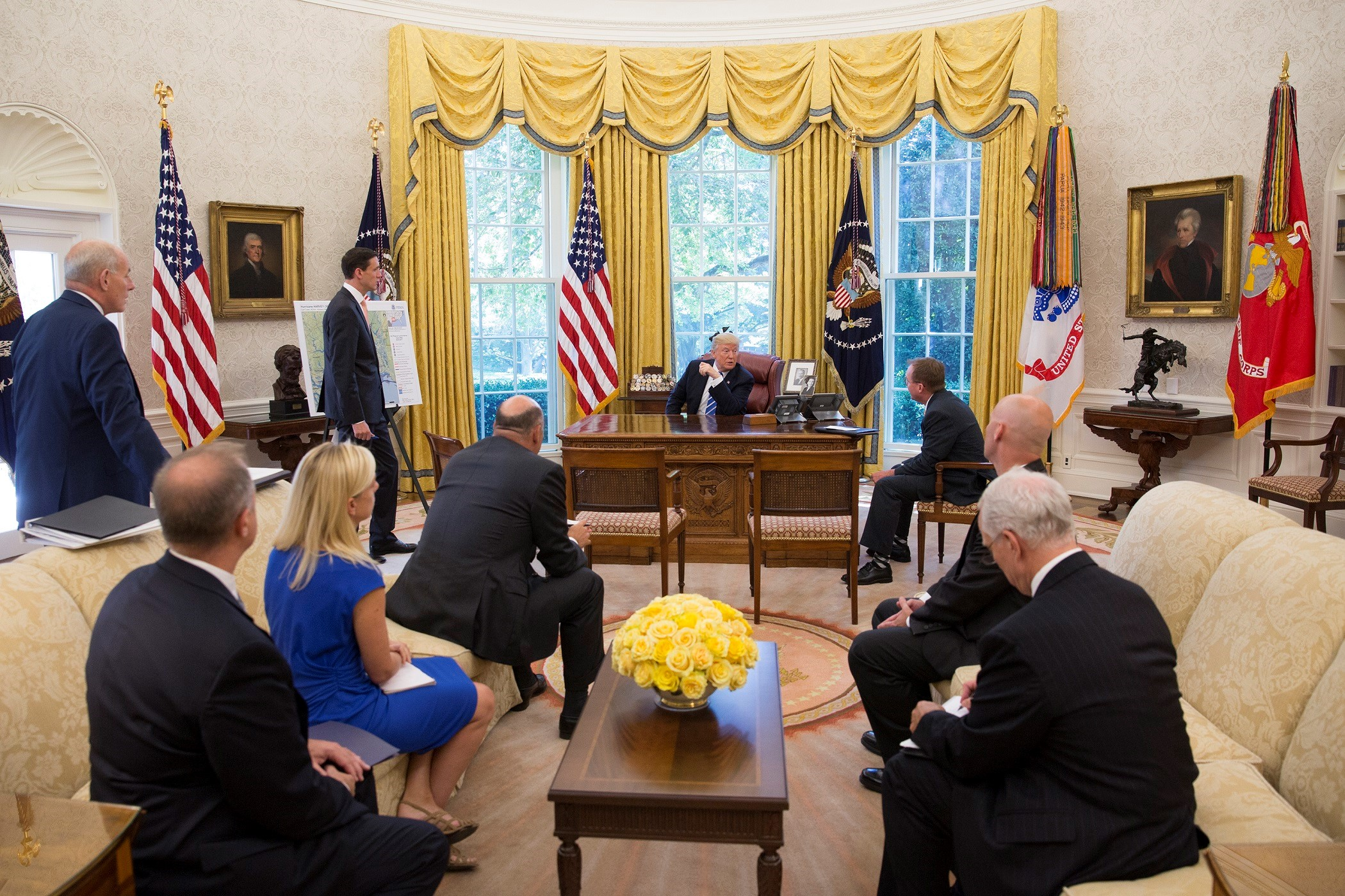 President Donald J. Trump participates in a briefing on Hurricane Harvey's recovery efforts | August 31, 2017 (Official White House Photo by D. Myles Cullen)